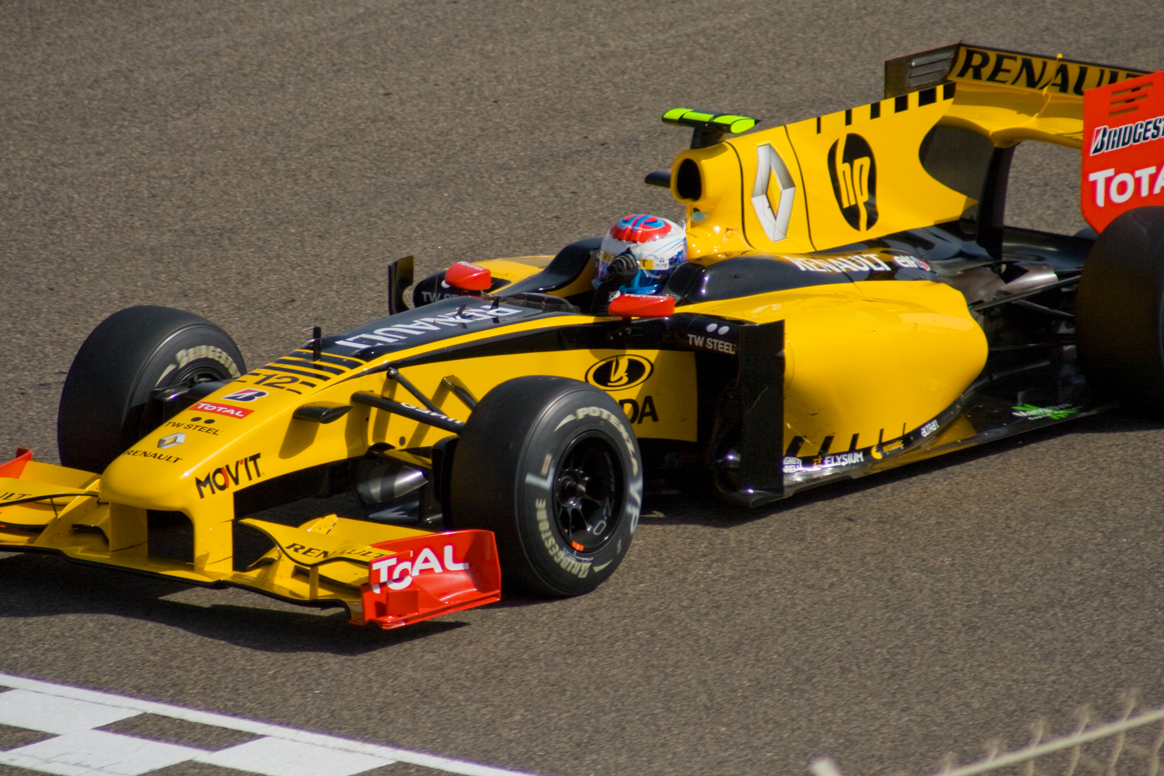 Vitaly Petrov driving for Renault F1 at the 2010 Bahrain Grand Prix.